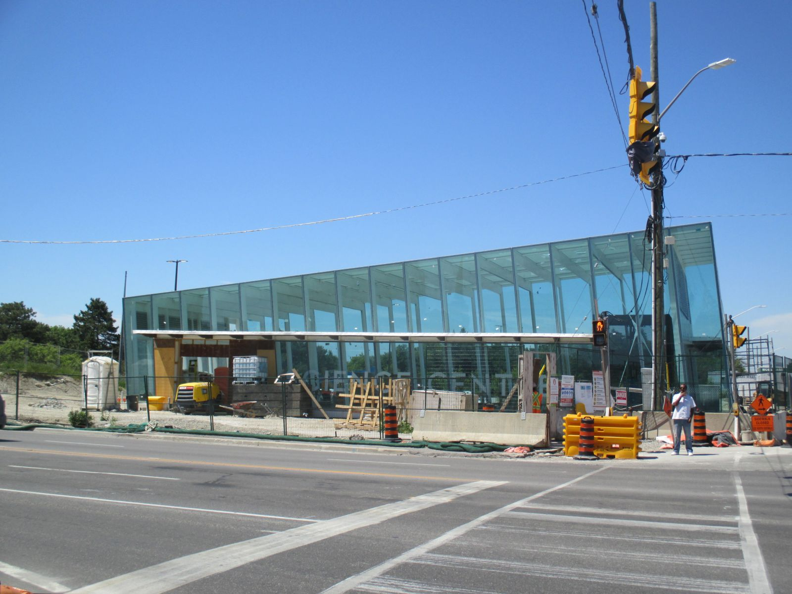 Science Centre station main entrance under construction as of June 2020